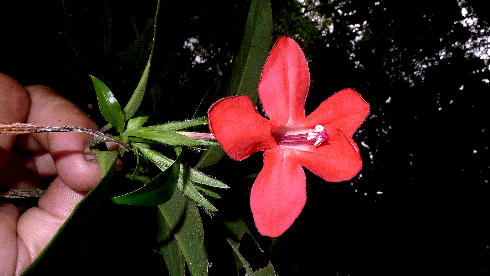 Ruellia affinis (Nees) Lindau